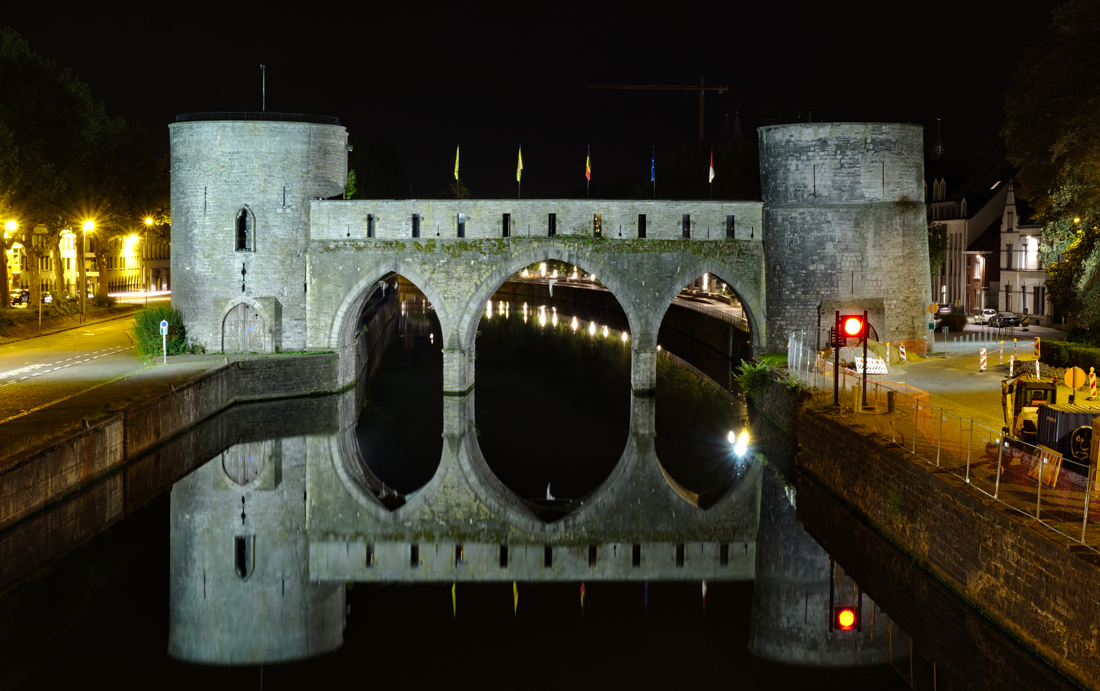 Pont des Trous at night This photo of immovable heritage has been taken in the Walloon Region